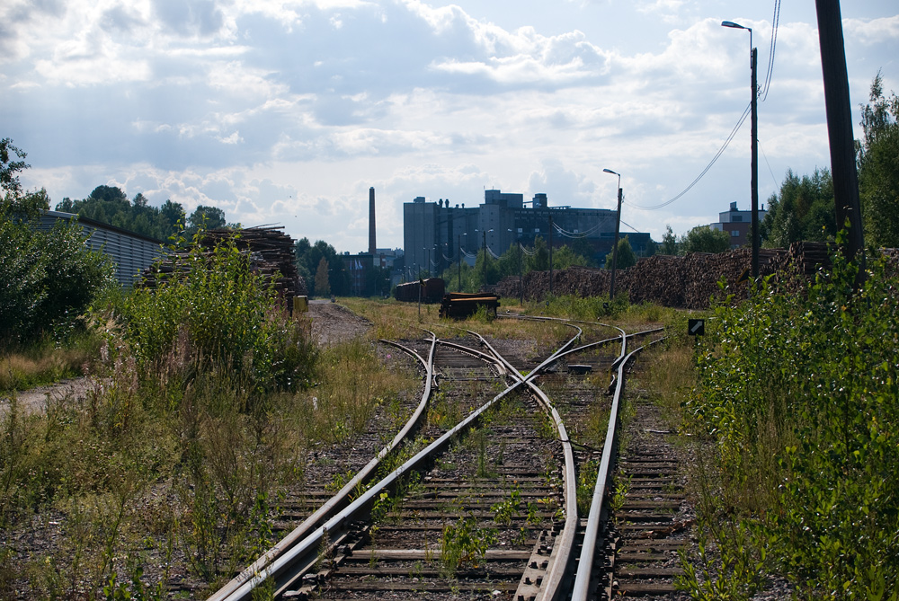 The eastern end of Mukkula rail yard in Lahti, Finland